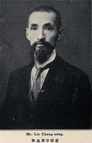 Lin Changmin, Mengzong (1876 - 1925)